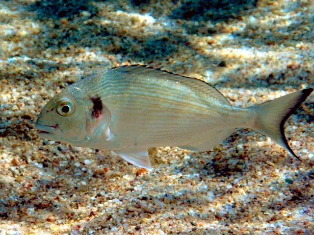 Sparus aurata photographed in Sardinian sea.